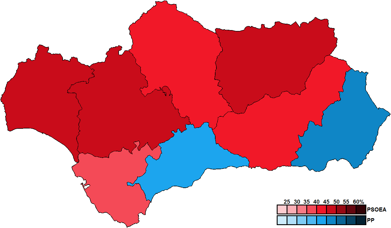 Provincial results for the 2000 Andalusian regional election.